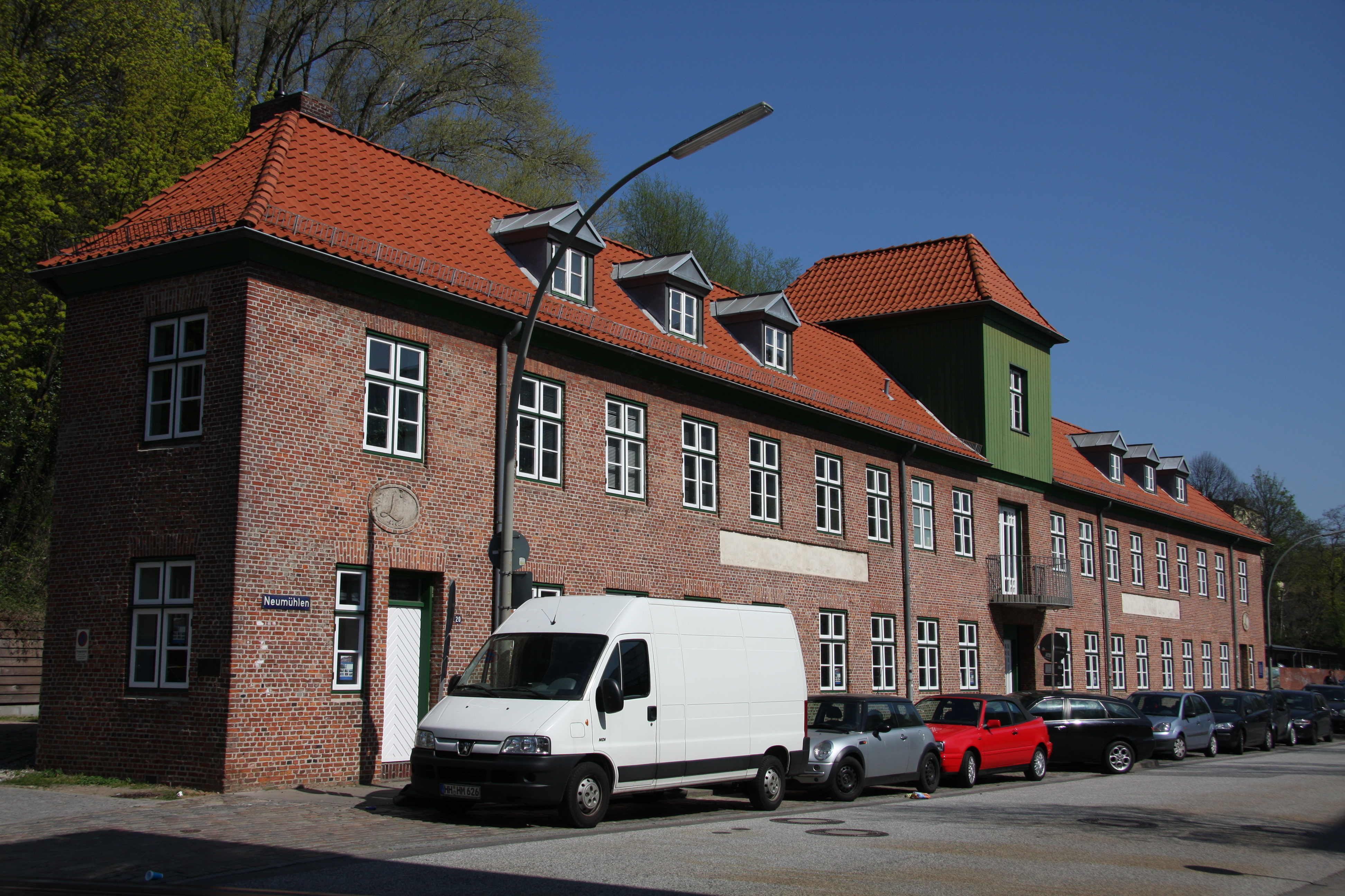 Landmarked Lawaetz-House in Hamburg-Ottensen, Neumühle